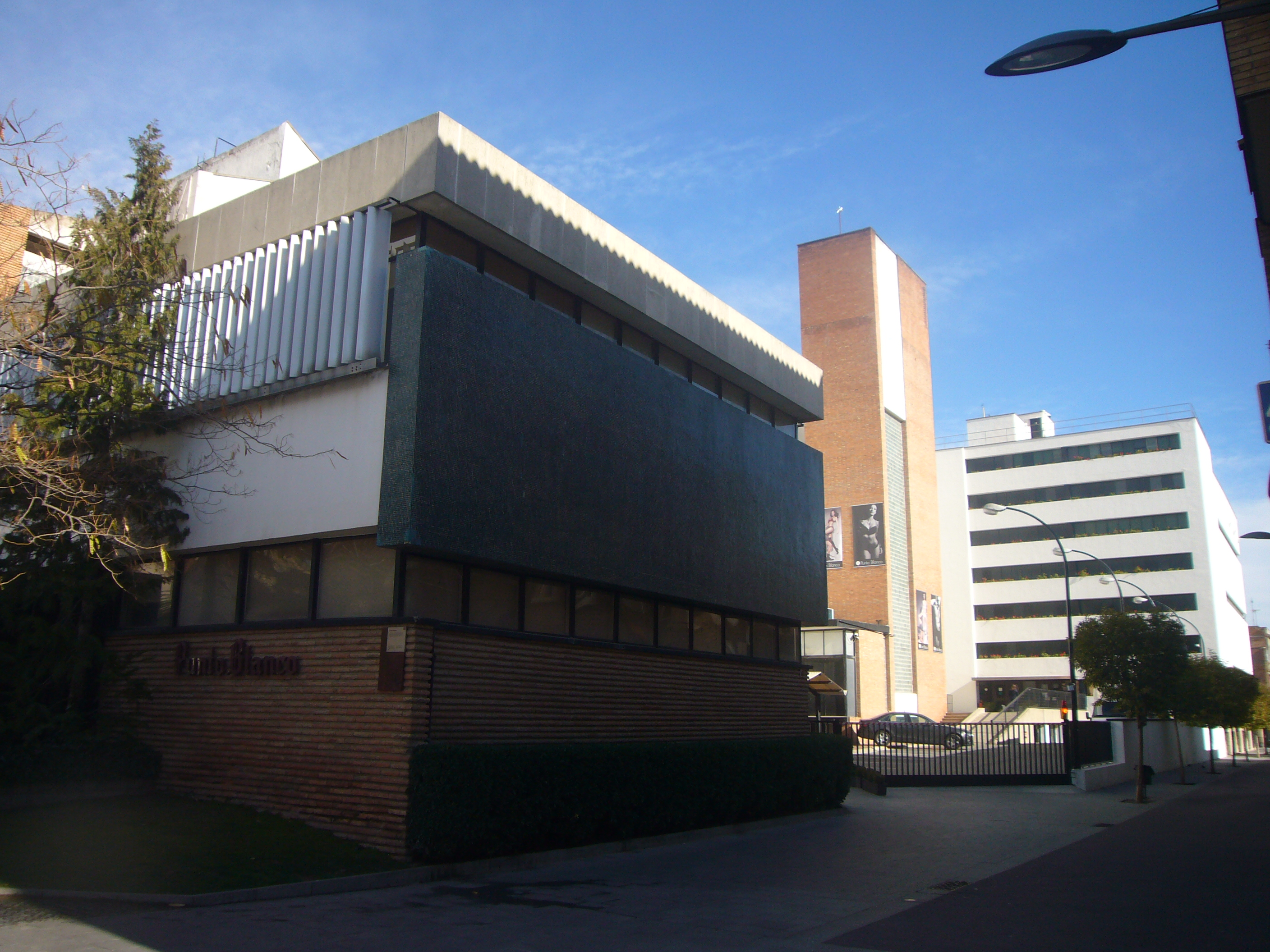 Punto Blanco factory, in Igualada, Catalonia, manufacturing underwear clothing.